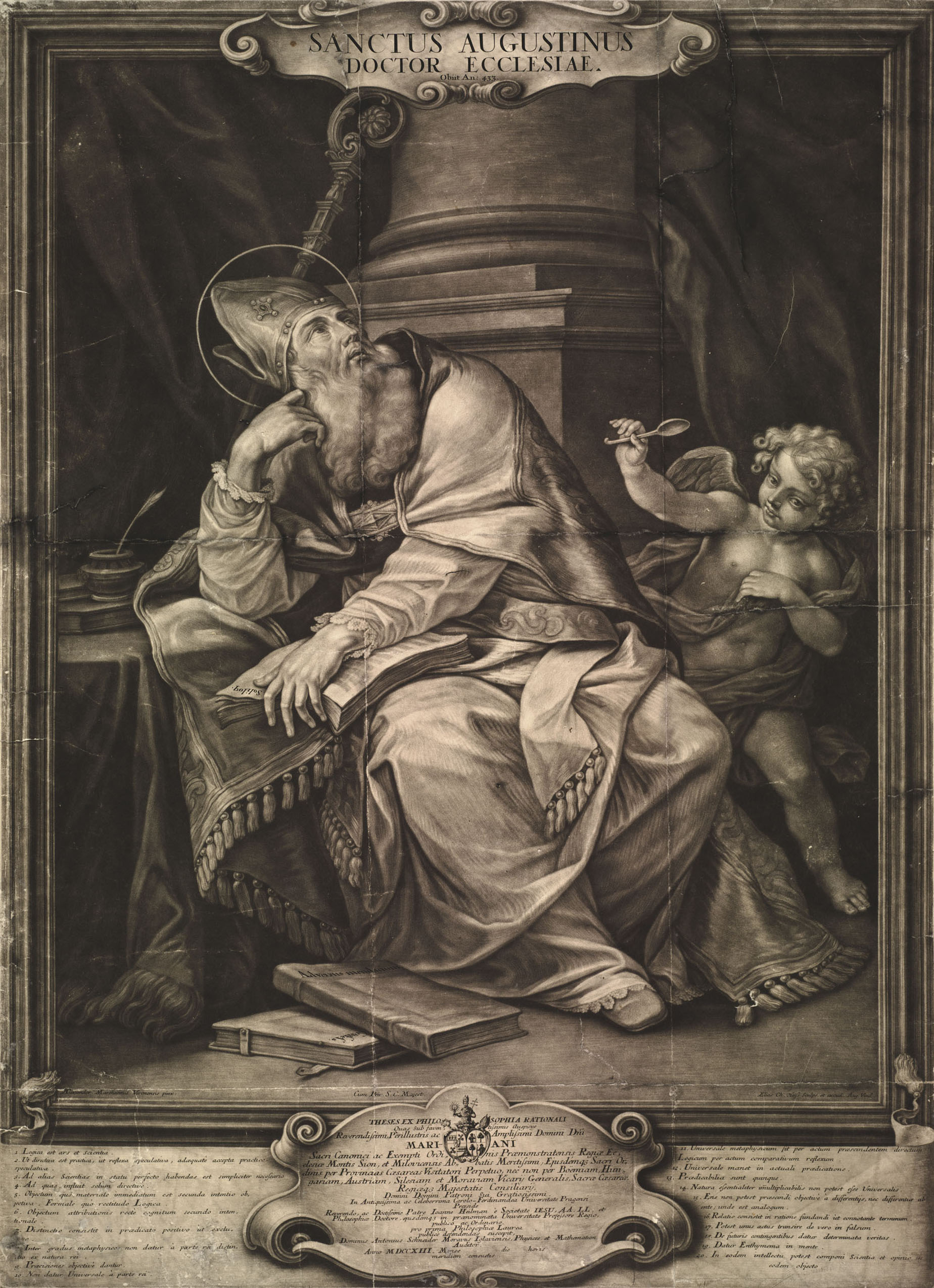 Camera_1984, Thu Oct 14, 2010, 11:14:41 AM, 8C, 5712x6992, (288+520), 100%, plány, 1/60 s, R72.5, G33.8, B34.2 Mezzotint after Alessandro Marchesini (1664-1738). Published in Augsburg by the artist. Thesis sheet. Thesis 145, National Library of the Czech Republic, Prague.